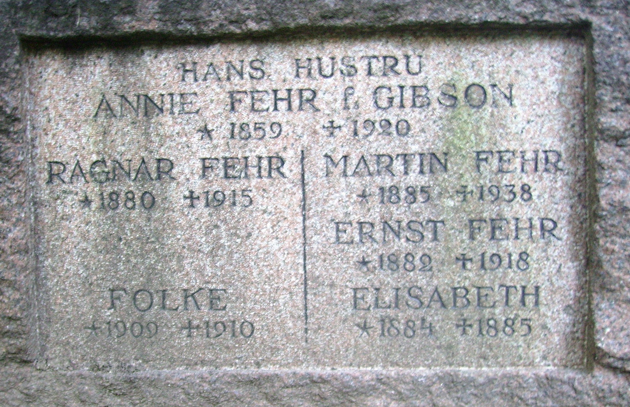 Picture of Martin Fehr's grave at Norra begravningsplatsen in Solna